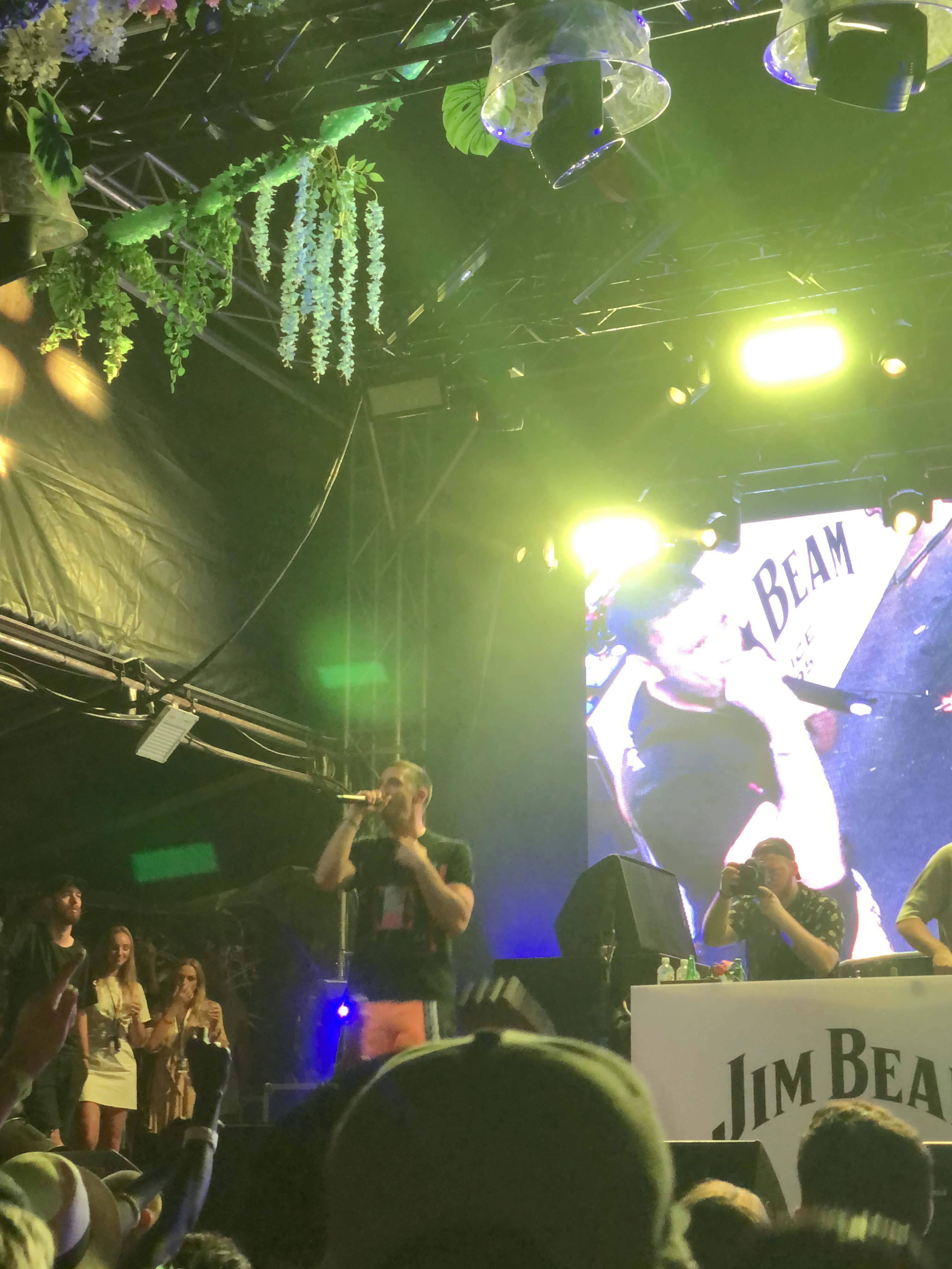 British singer Example performing at the Gold Coast 600.